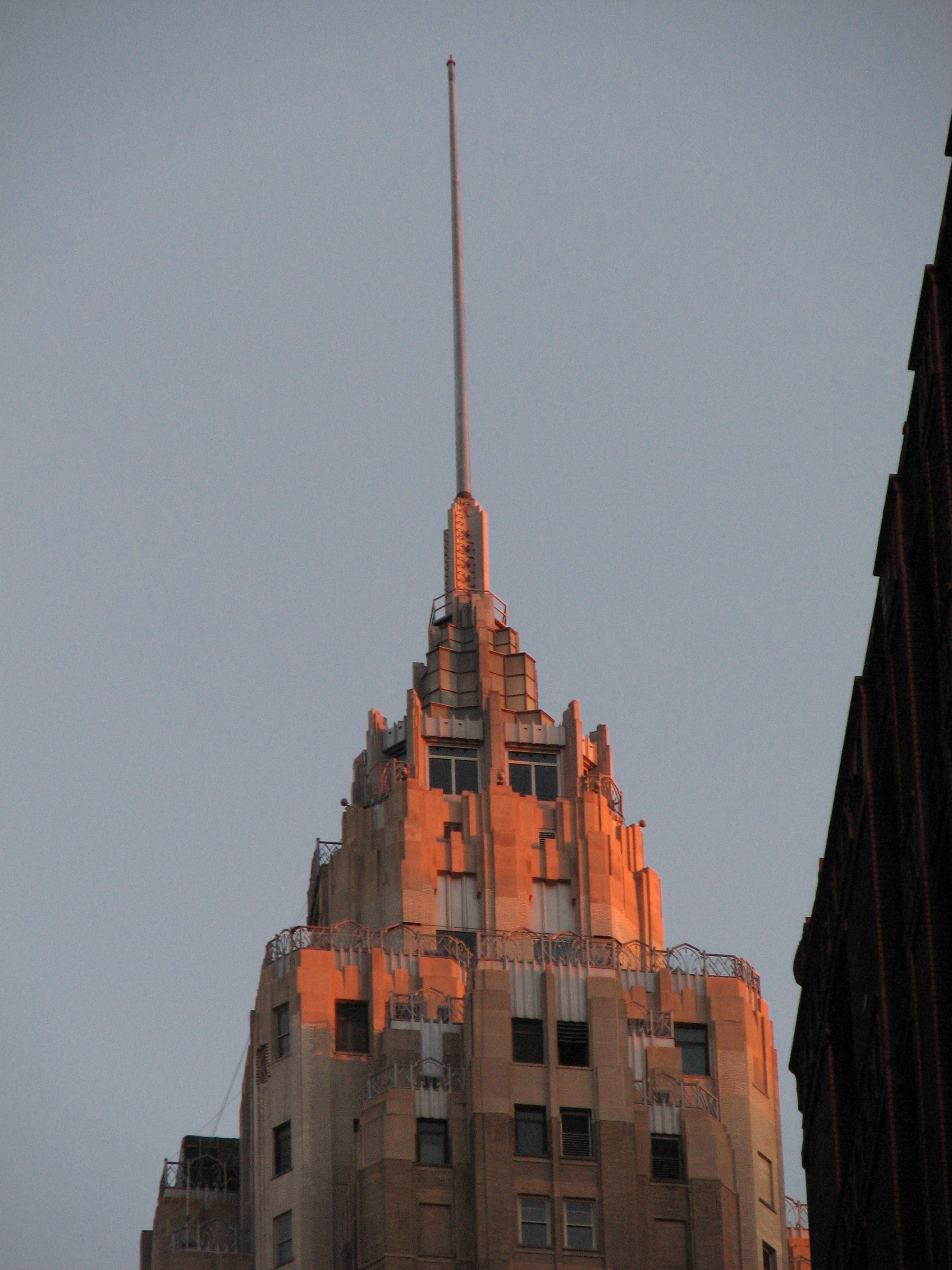 The top portion of the American International Group headquarters building in New York City lit by the sun; see a similar image of the building at dusk.